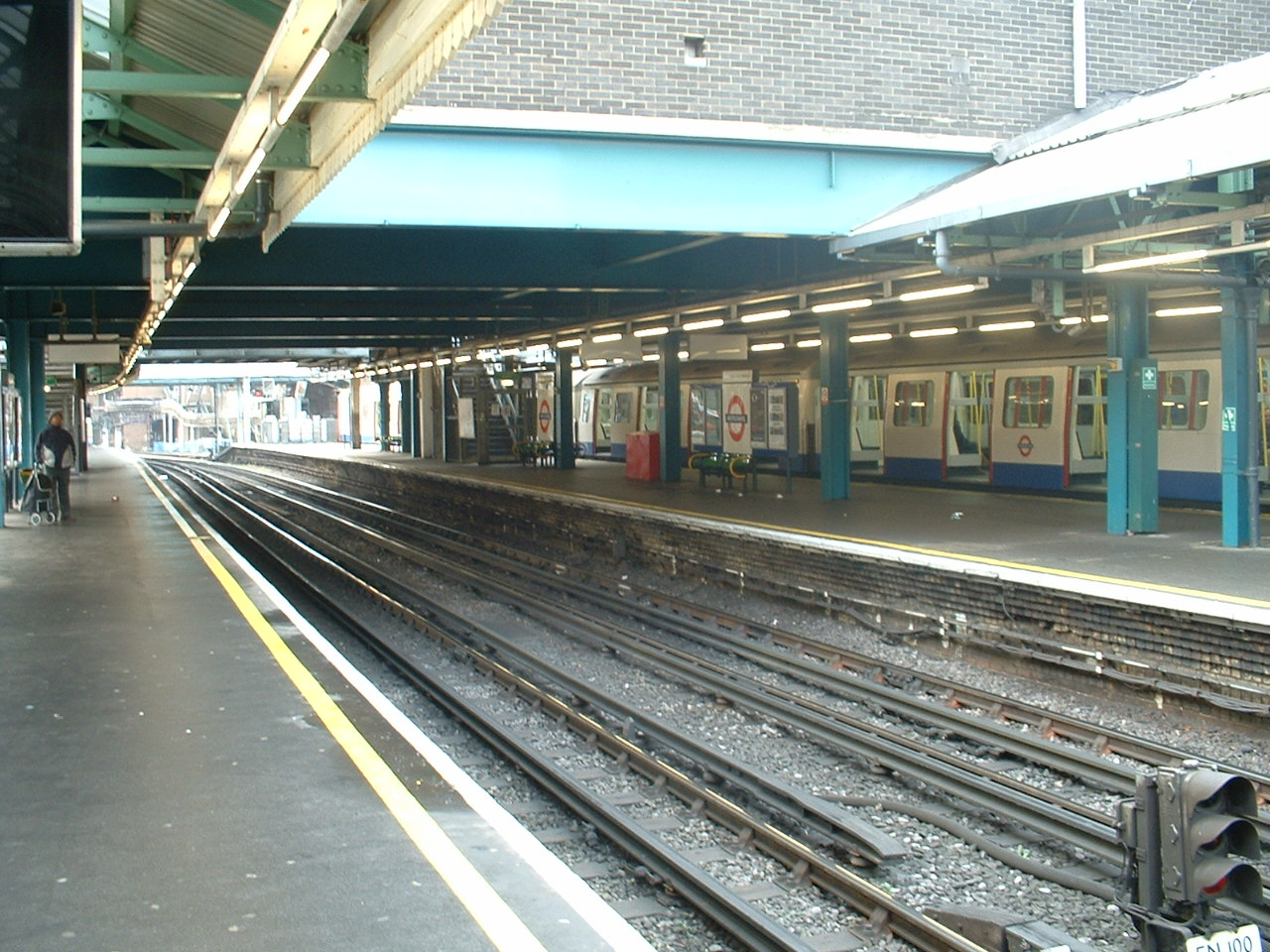 Whitechapel tube station looking west, with Hammersmith & City line train in northern most platform